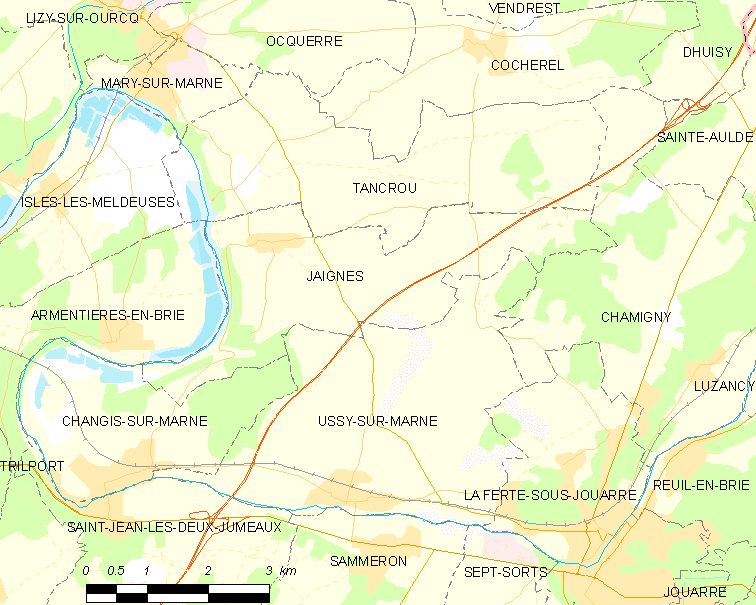 Map of French municipality Jaignes